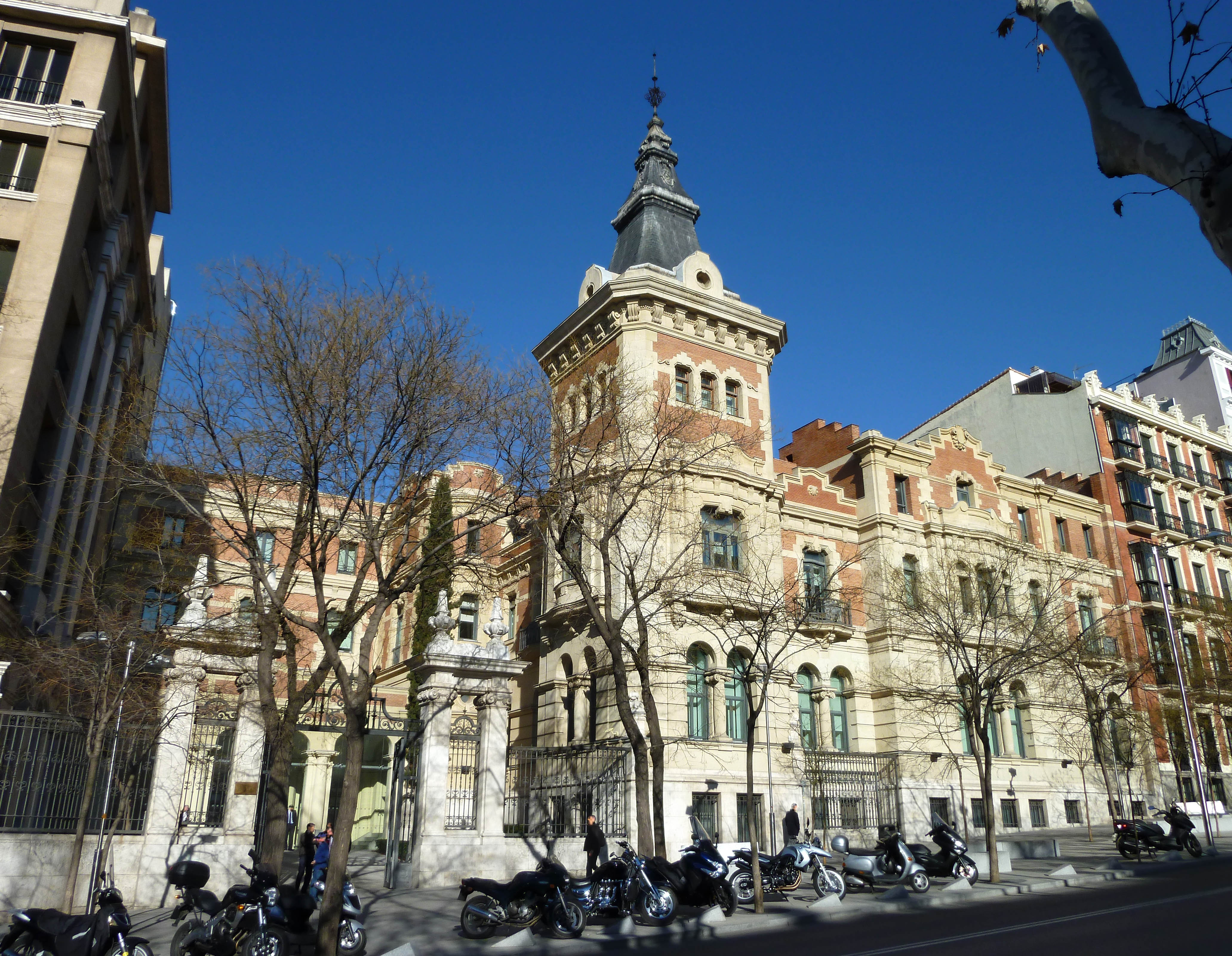 Façade of Palacio de los Condes de Guevara ("Palace of the Counts of Guevara"), at 2nd Plaza de Santa Bárbara (a square) in Centro district in Madrid (Spain). Projected by Joaquín Pla Laporta and built in the 1920's. Nowadays it is the headquarters of Banco de Crédito Local (part of BBVA group).